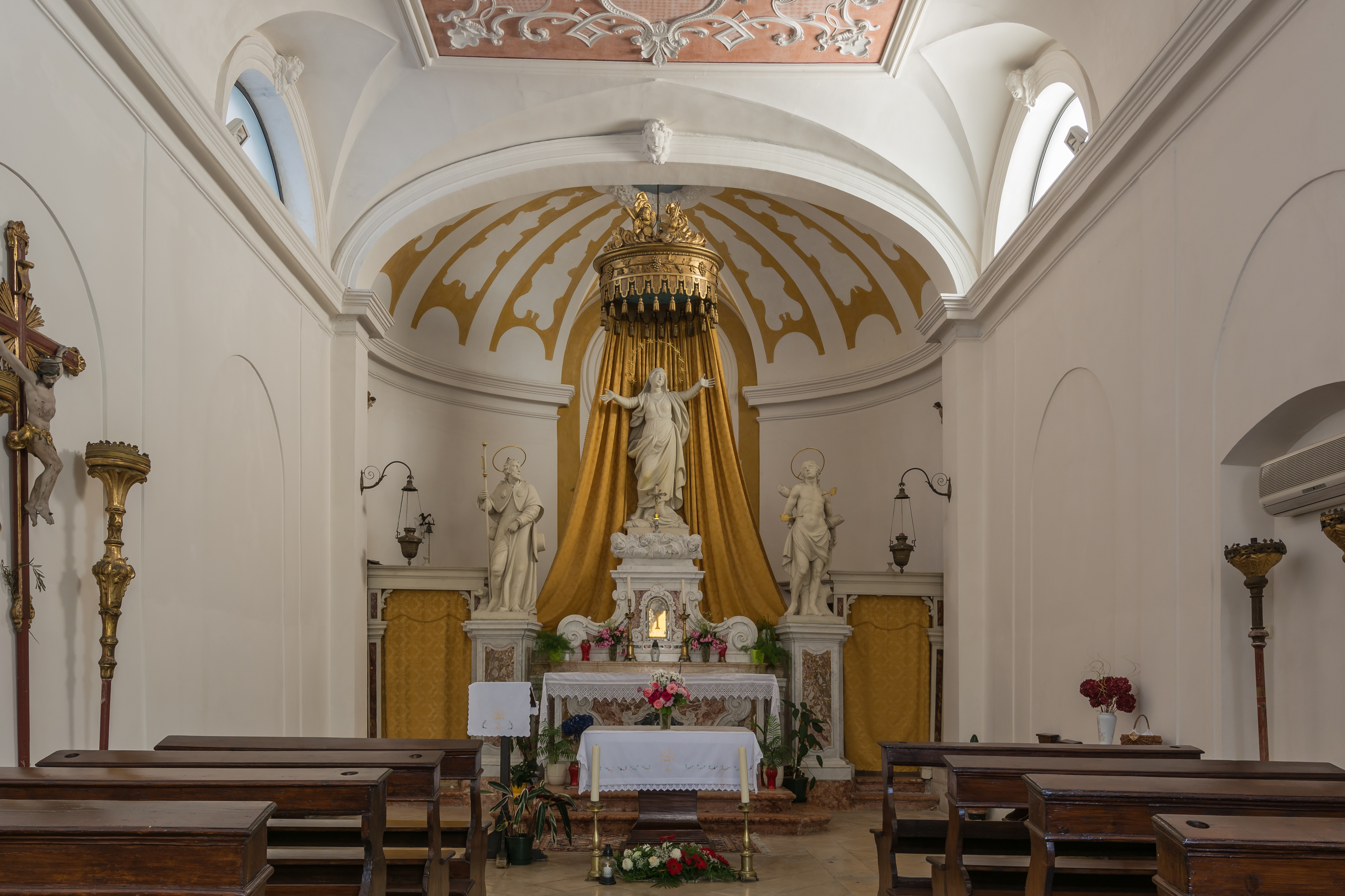 The church of St. Roche was probably built in the 17th century. It is located in the square Trg bratstva. Inside there are statues of St. Roch, of the Madonna and St. Sebastian.